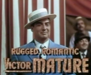 Cropped screenshot of Victor Mature from the trailer for the film Million Dollar Mermaid.